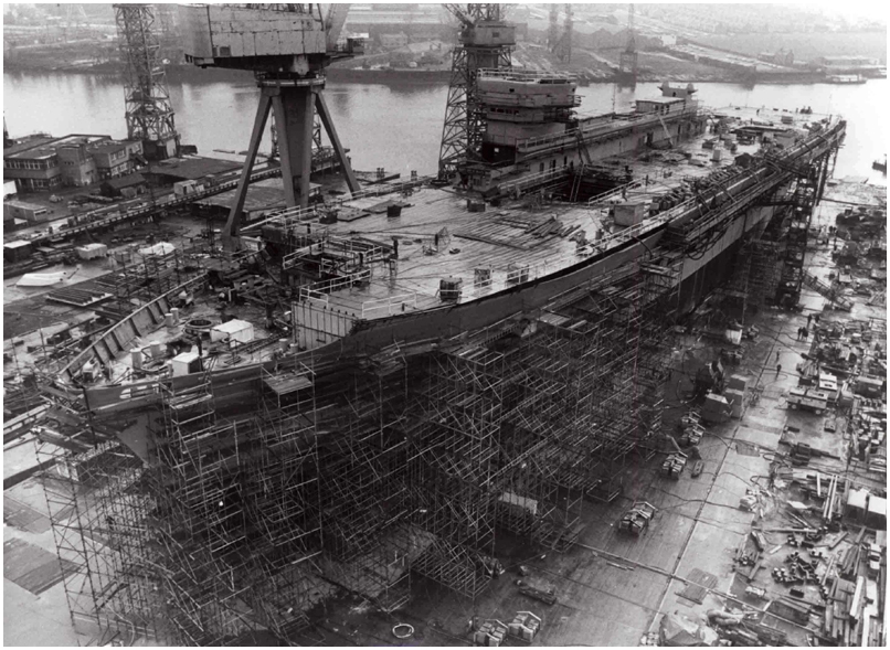 HMS Ark Royal was the former flagship of the Royal Navy. One of three Invincible class aircraft carriers she was affectionately known as The Mighty Ark. Her keel was laid by Swan Hunter at Wallsend on 7th December 1978 and she was launched on 20th June 1981 and completed in 1985. Major deployments included the Bosnian war (1993) and the invasion of Iraq (2003). More recently, she assisted in the repatriation of air travellers stranded by the 2010 volcanic eruption. Most photographs and images in this set are taken from the Swan Hunter Collection held by Tyne and Wear Archives Service. Ref: TWAS:ds-swh-4-ph-5-109-14 (Copyright) We're happy for you to share this digital image within the spirit of The Commons. Please cite 'Tyne & Wear Archives & Museums' when reusing. Certain restrictions on high quality reproductions and commercial use of the original physical version apply though; if you're unsure please . To purchase a hi-res copy please quoting the title and reference number.